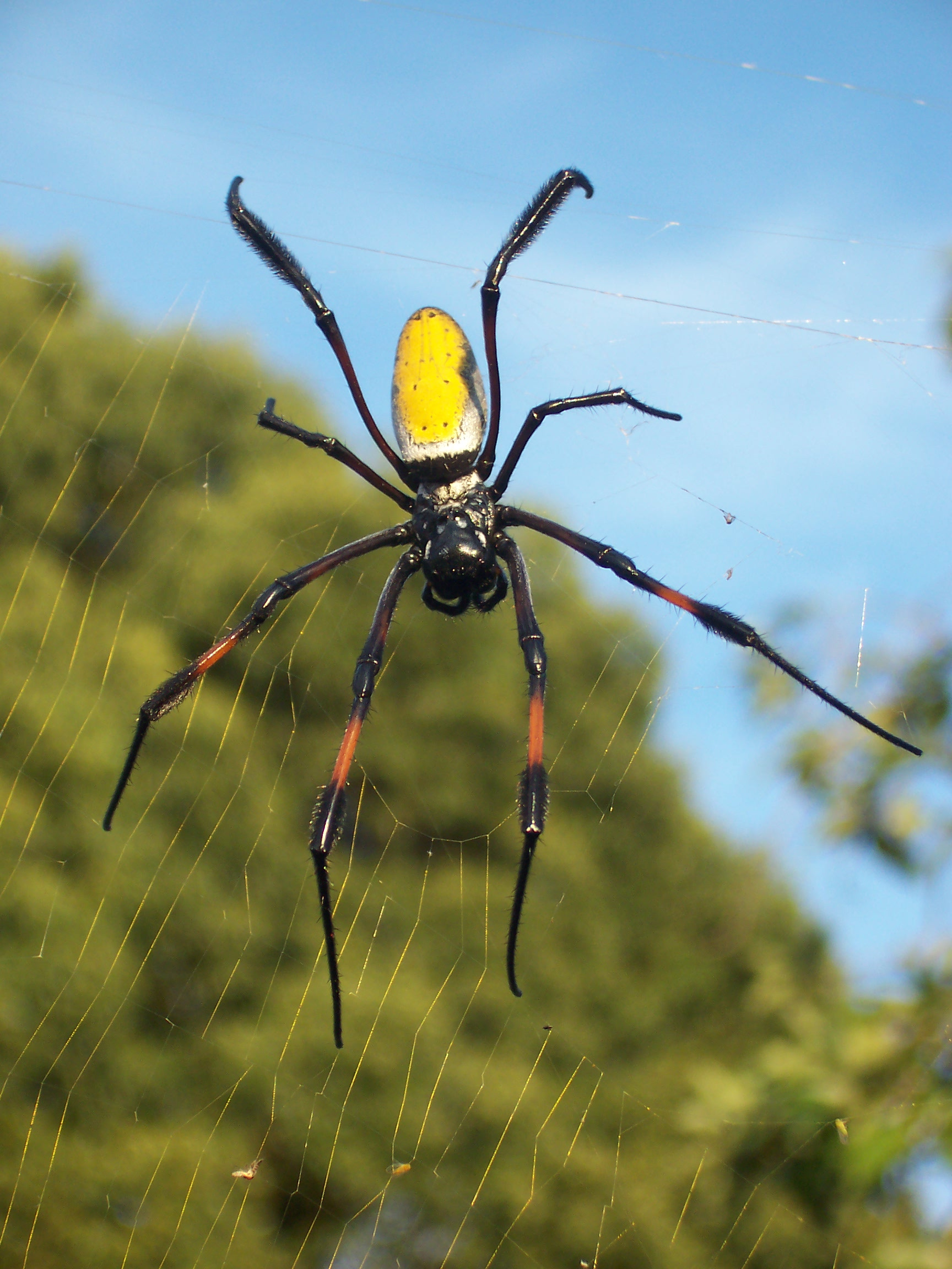 Nephila inaurata (Le Tampon, Réunion island)